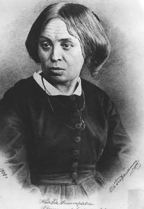 Russian writer Nadezhda Khvoshchinskaya.